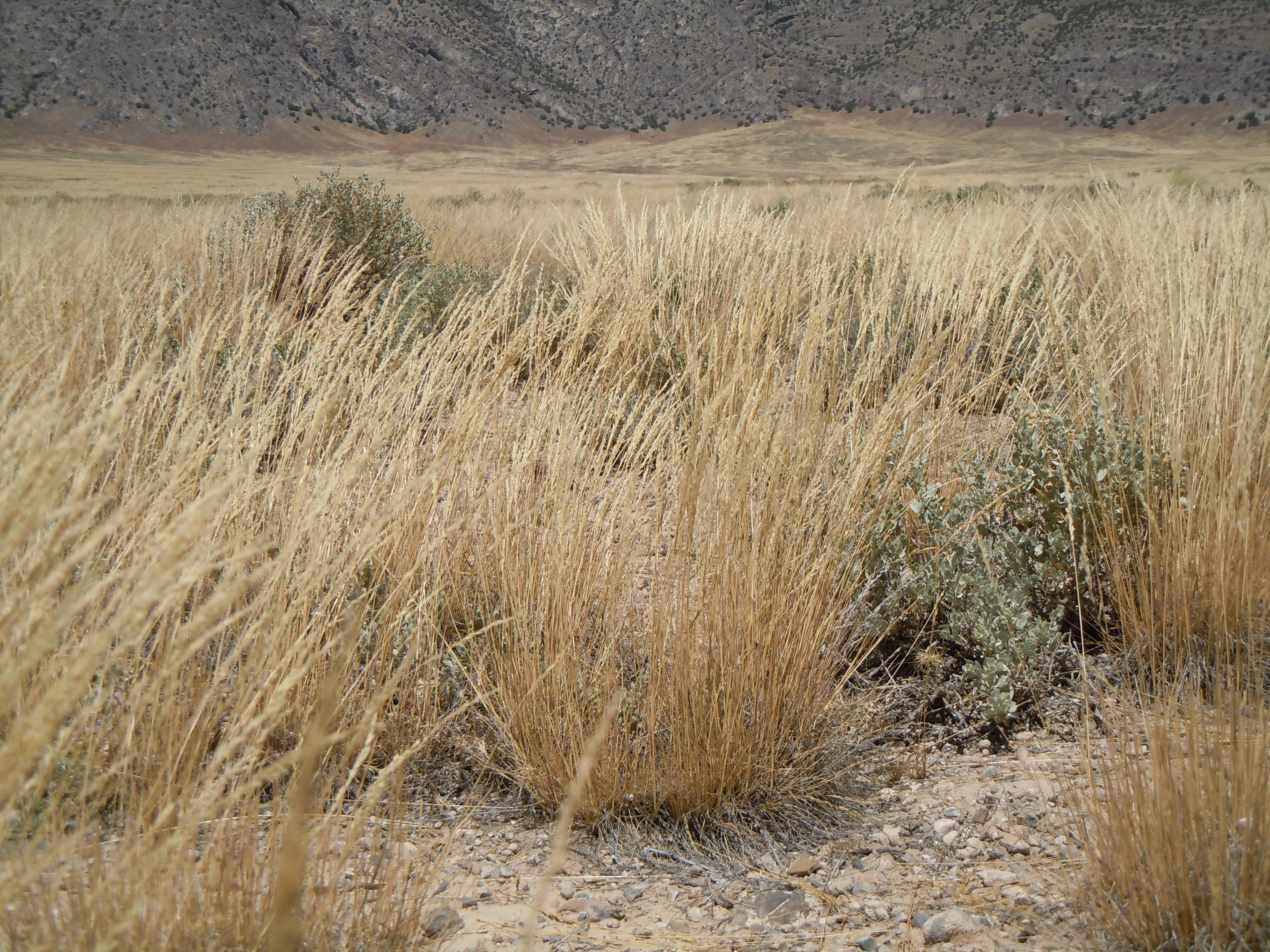 Poa secunda is remarkably common on the alluvial fans (bajada) and by July is conspicuous as straw-colored bunches blanketing large tracts along the southern end of the Lemhis.